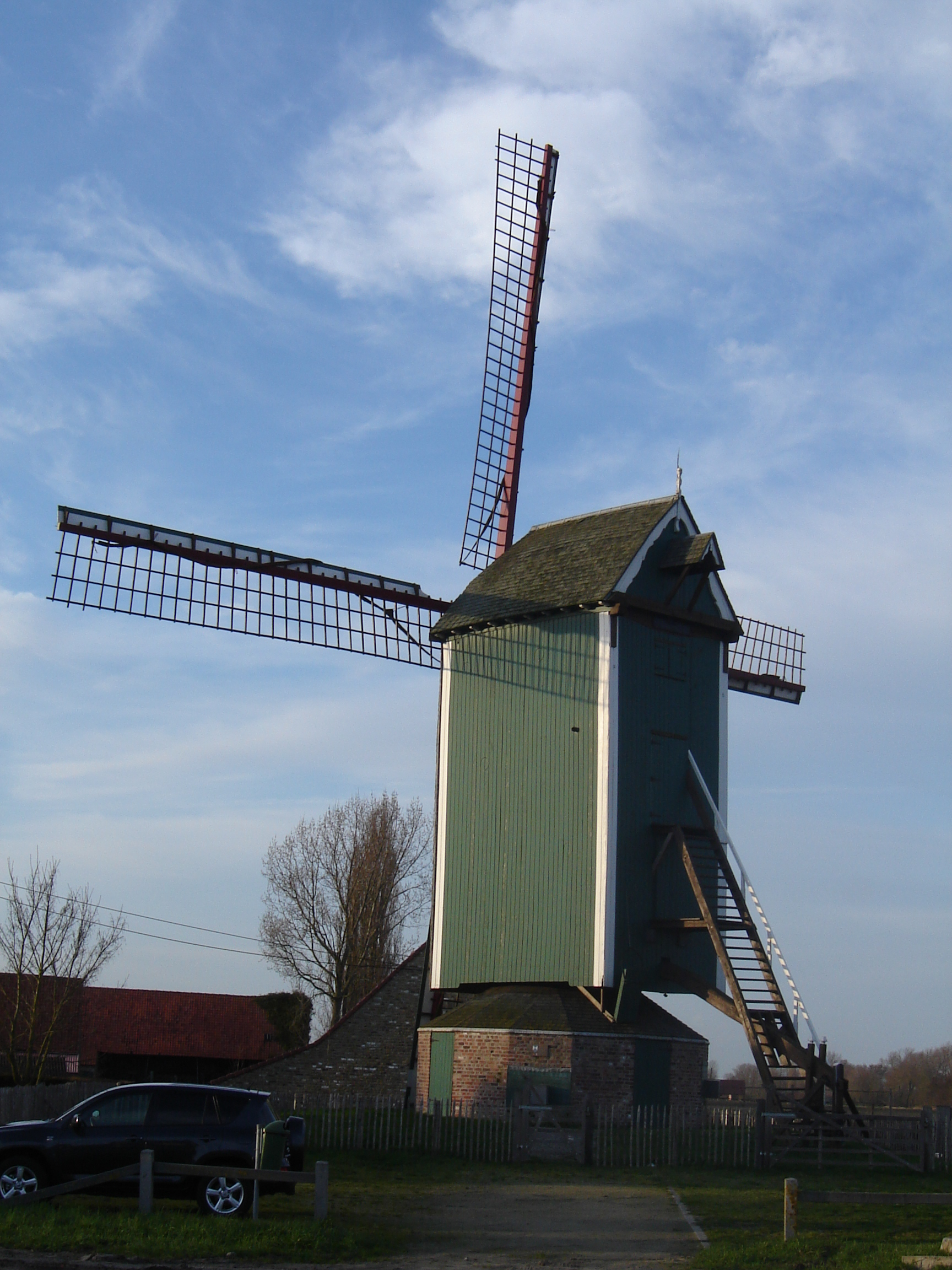 Markeymolen windmill in Pollinkhove. Pollinkhove, Lo-Reninge, West Flanders, Belgium and Oostvleteren, Vleteren, West Flanders, Belgium